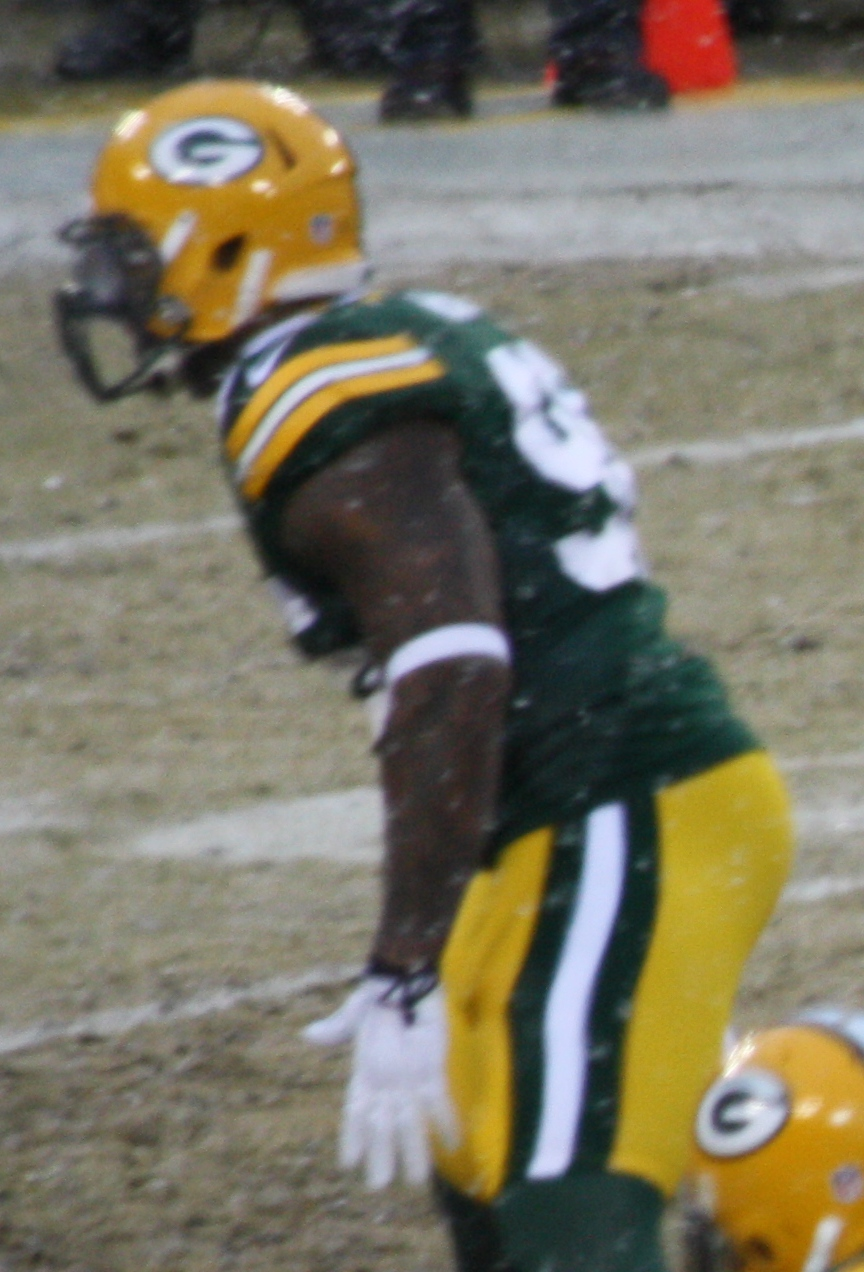 Green Bay Packers player Mike Neal in a game against the Pittsburgh Steelers.